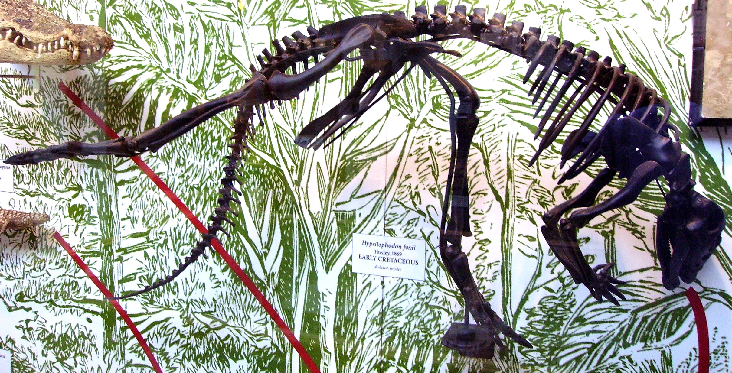 Hypsilophodon skeleton at Oxford University Museum of Natural History.